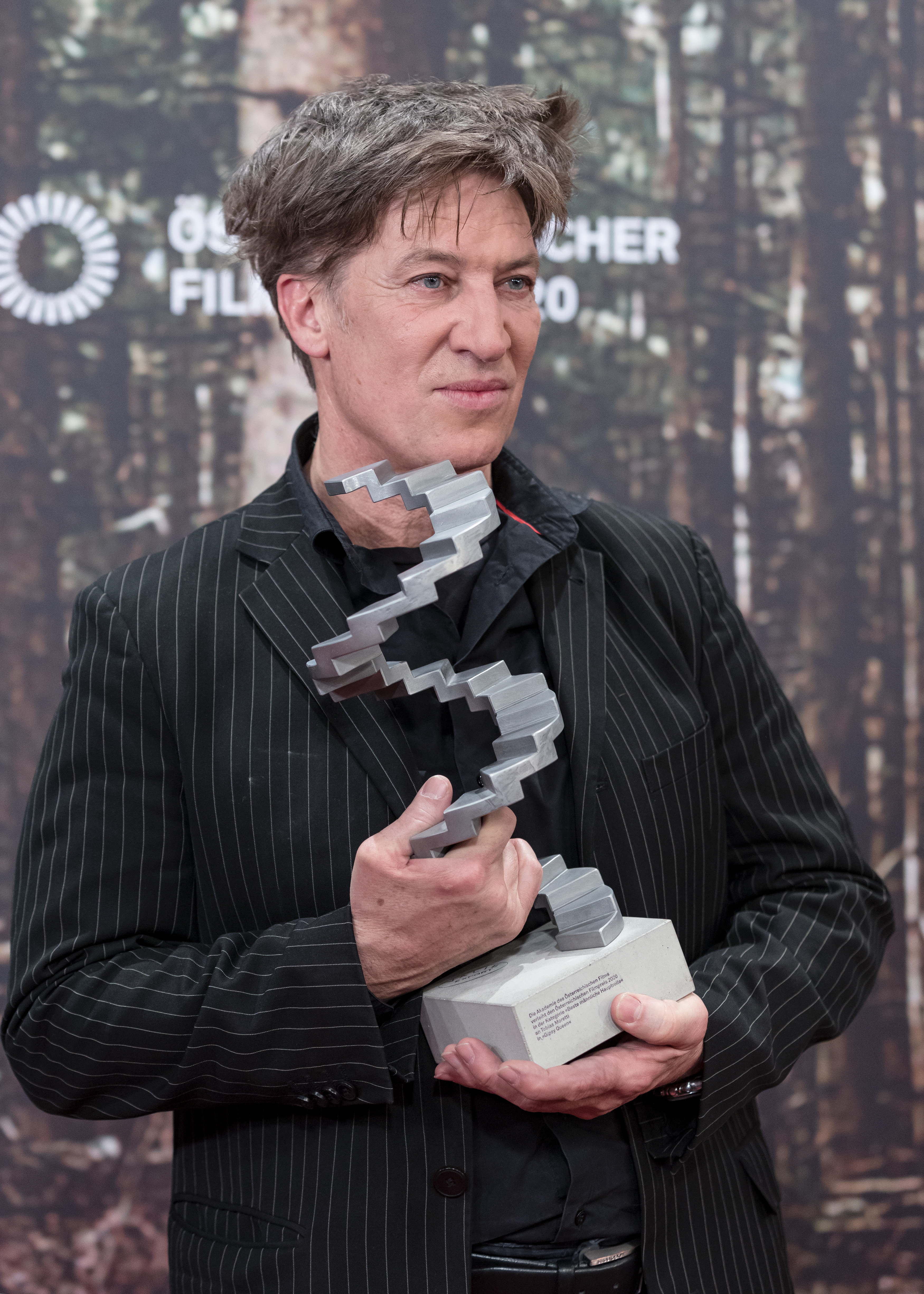 Tobias Moretti (Gipsy Queen) at the award ceremony of the Austrian Film Awards 2020 (Auditorium Grafenegg at Grafenegg Castle, Lower Austria,Austria).